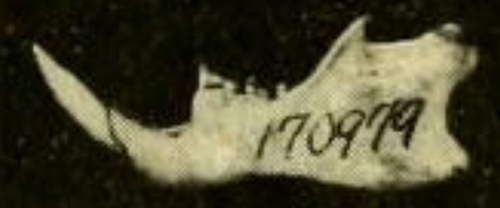 Mandible of Oryzomys talamancae (now Transandinomys talamancae). This is specimen USNM 170979, an adult female from Gatun, Panama.